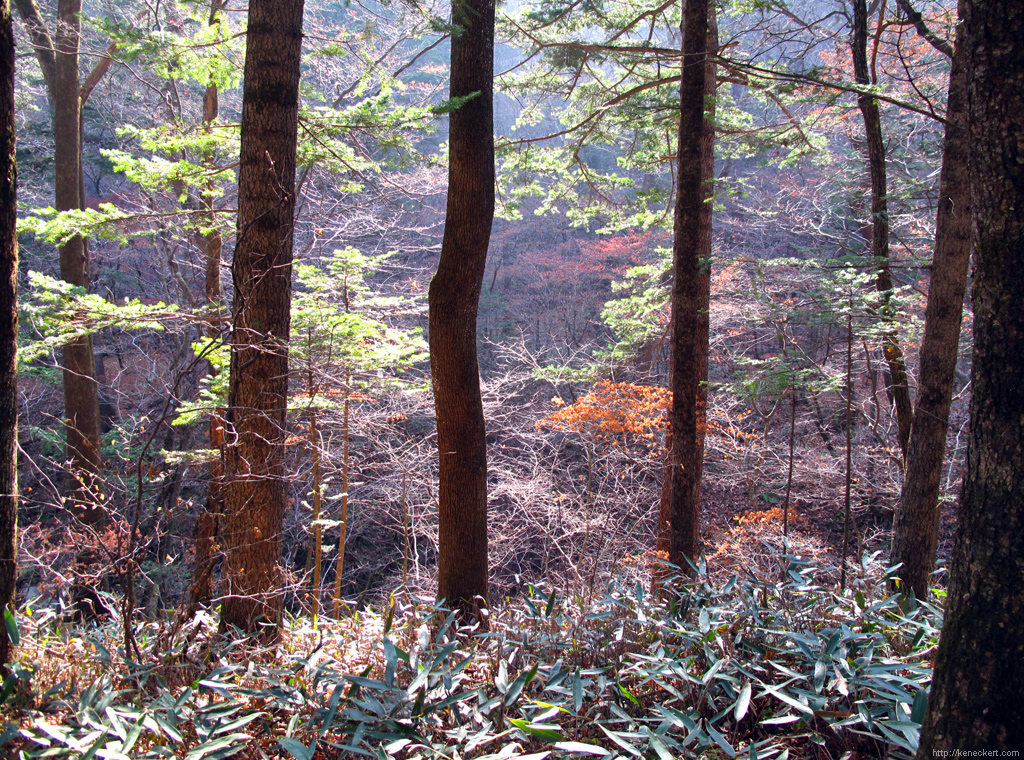 Autumn colors at Odesan National Park, South Korea